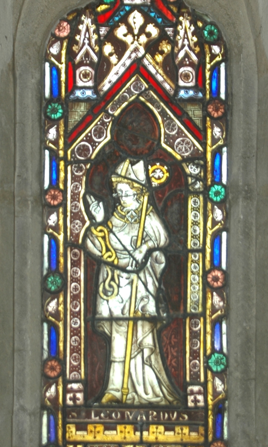 Detail of stained glass portrayal of St Leonard of Noblac in Drayton St Leonards parish church, Oxfordshire. Originally mid-14th century, extensively restored in 1859.